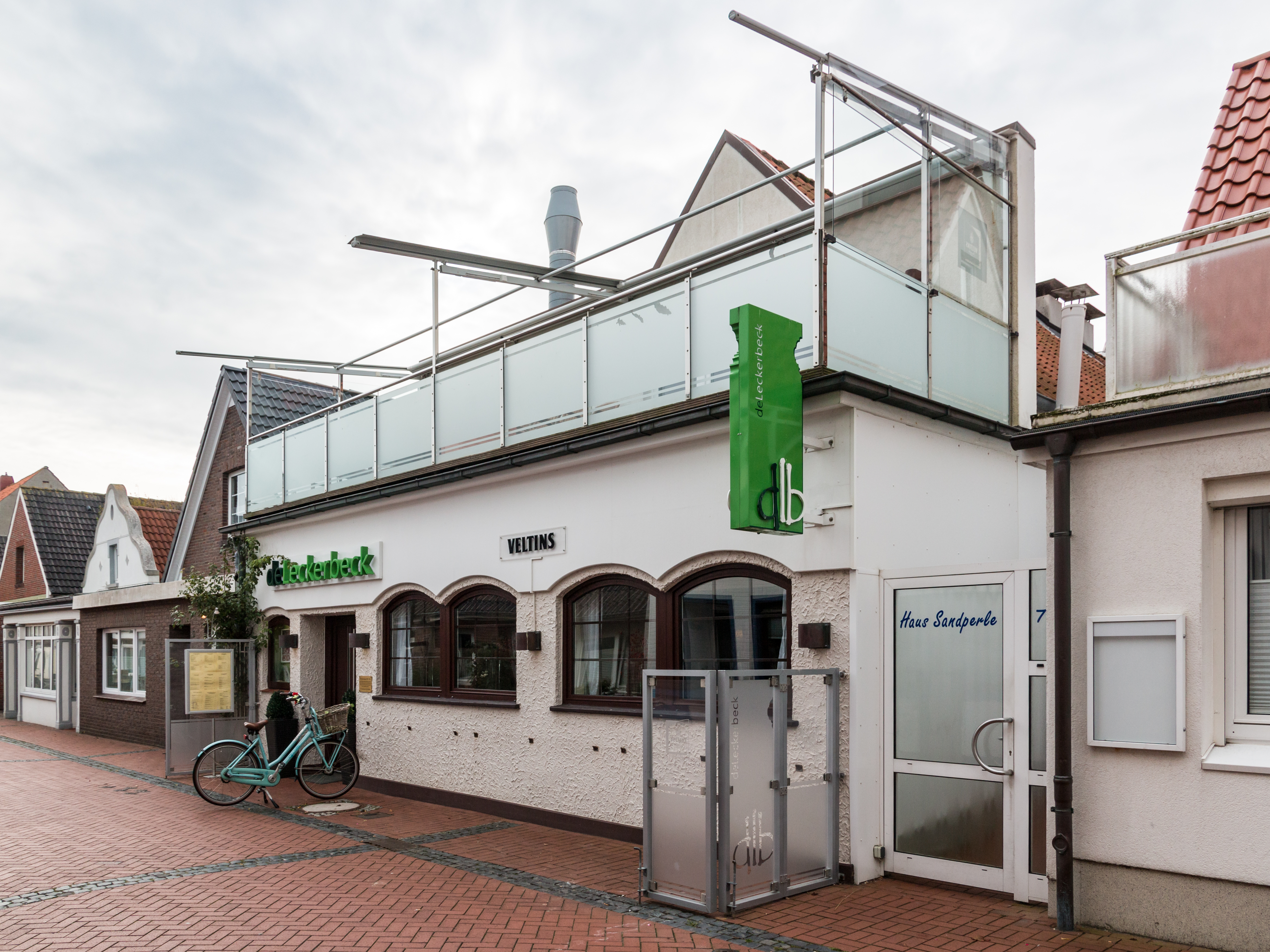 Restaurant “de Leckerbeck” (former Synagogue), Norderney, Lower Saxony, Germany